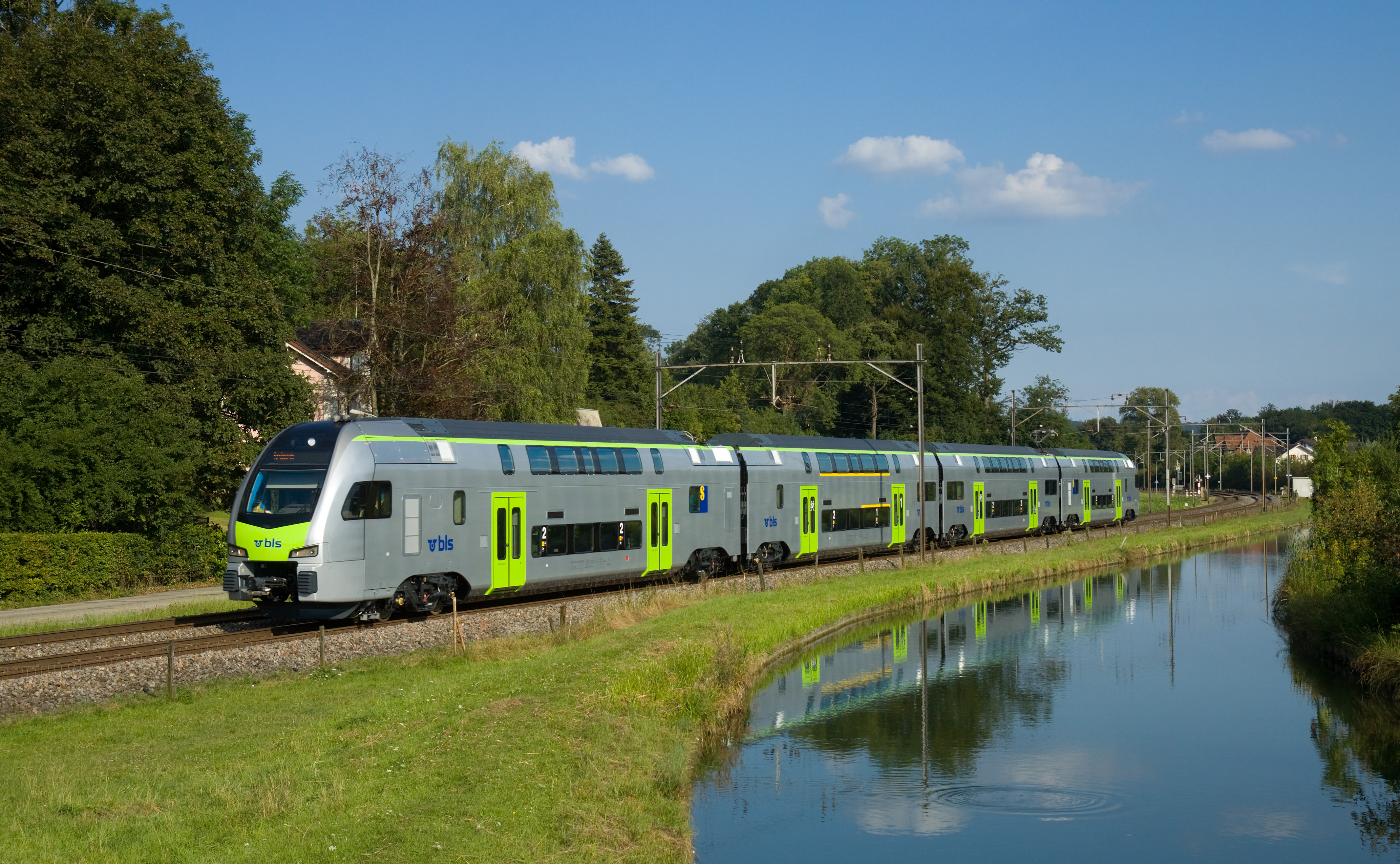 A BLS RABe 515 "KISS" is being transferred from the Stadler Works at Erlen to Bern. Picture taken at Bürglen TG, Switzerland.